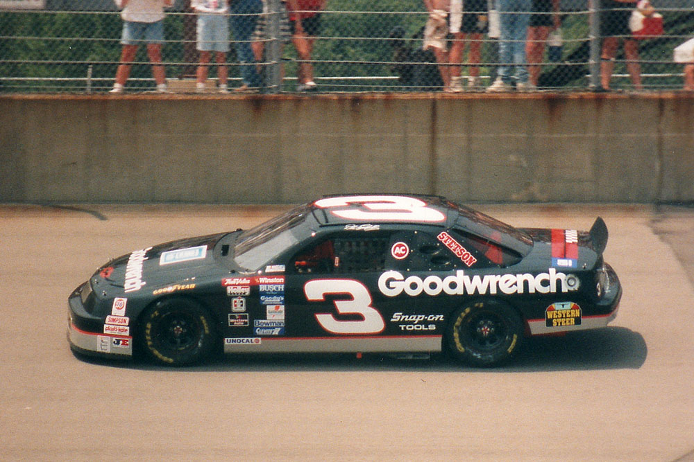 Dale Earnhardt, Chevrolet Lumina, Michigan International Speedway – 14 June 1994 Film Scan Canon AE-1Old School NASCAR- Dale Earnhardt 1994